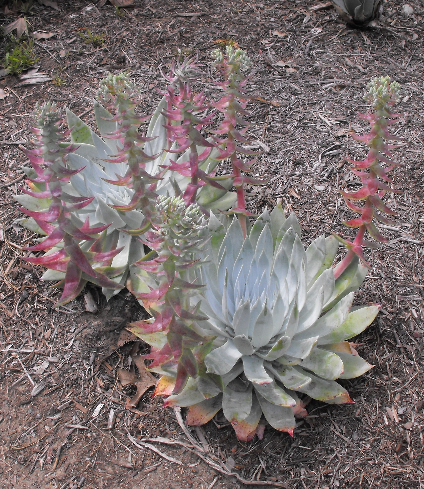 Dudleya brittonii at Quail Botanical Gardens in Encinitas, California, USA. Identified by sign.